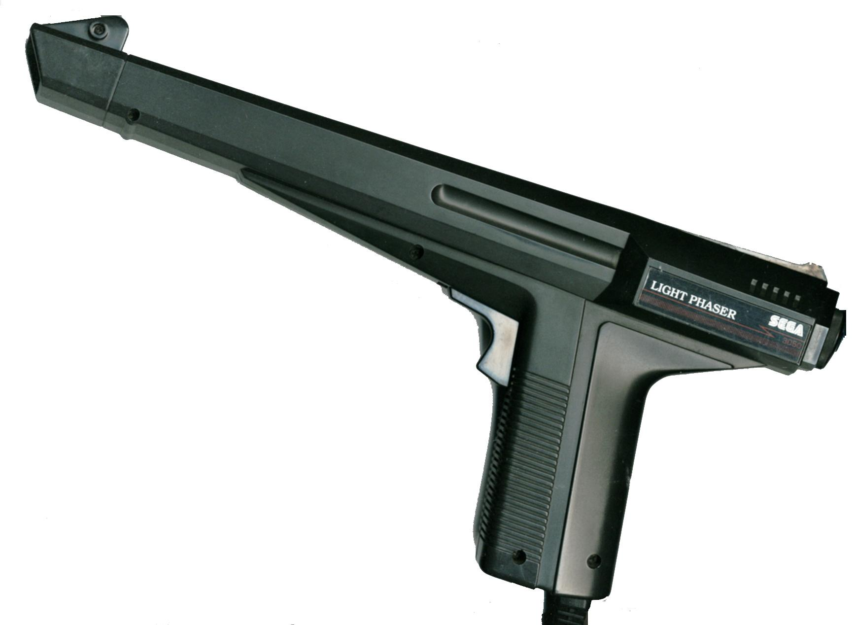 Light Phaser is a light gun created for the Sega Master System